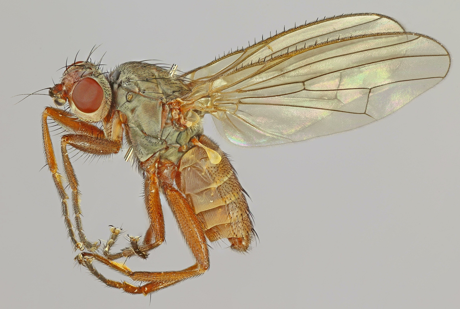 Heleomyza serrata, Trawscoed, North Wales, May 2012